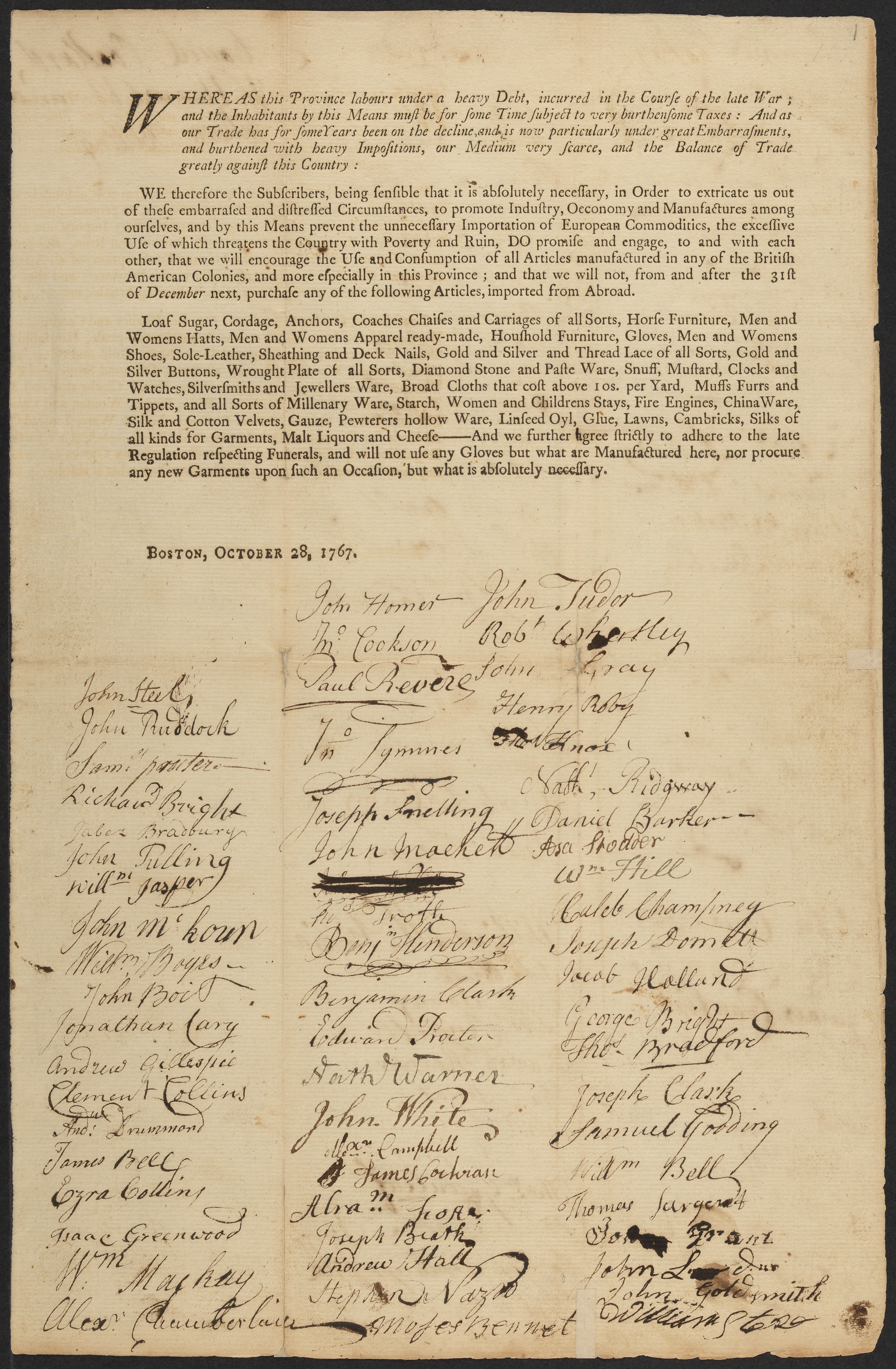 A non-importation agreement responding to Townsend Acts, October 28, 1767. Signed by 650 Bostonian colonists, including Paul Revere. This is the first of several pages. All are fully digitized at: AB7.B6578.767w, Houghton Library, Harvard University. See also the article "A Revolutionary Discovery in the Stacks".